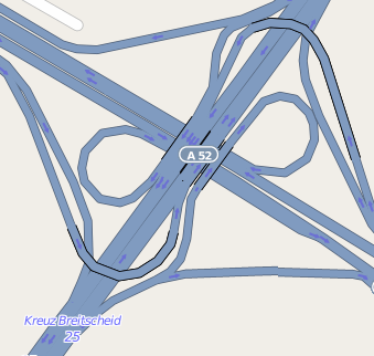 Interchange Breitscheid with OpenStreetMap